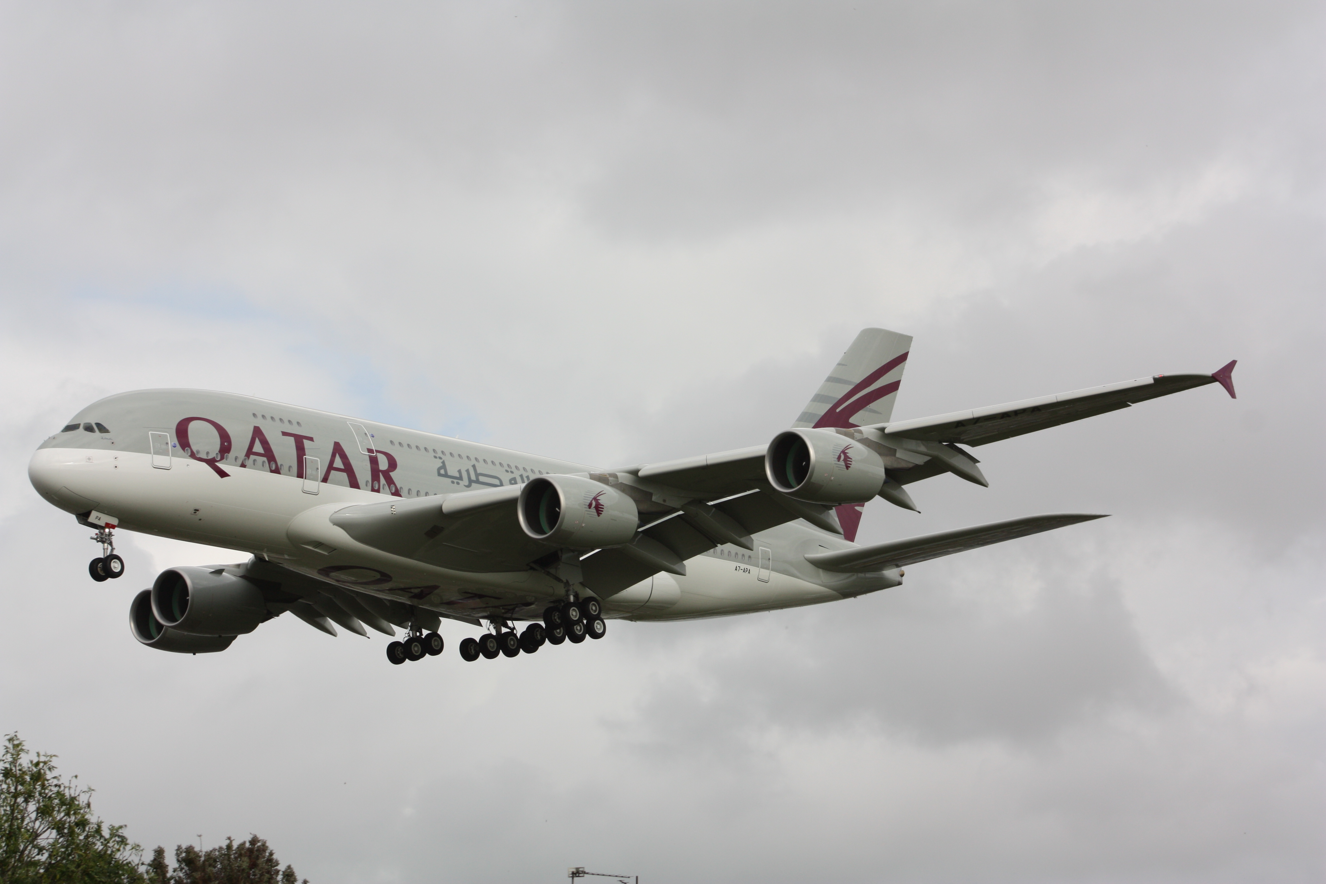 Qatar Airways Airbus A380 A7-APA at Heathrow 17/10/14